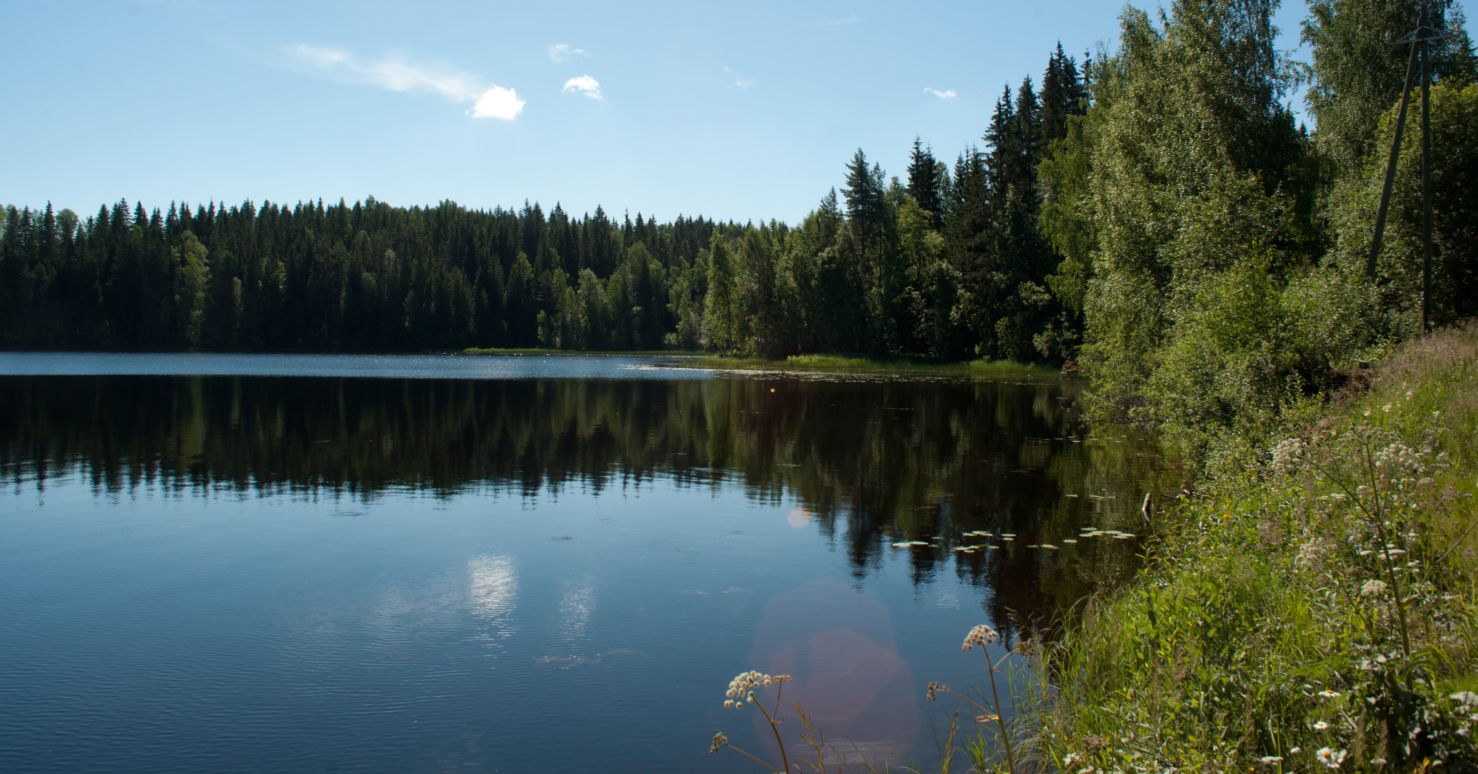 Lake Koskelovesi (Hankavesi, according to the coordinates) in Rautalampi, Finland.